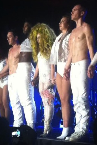 Lady Gaga and her backup dancers at Roseland Ballroom